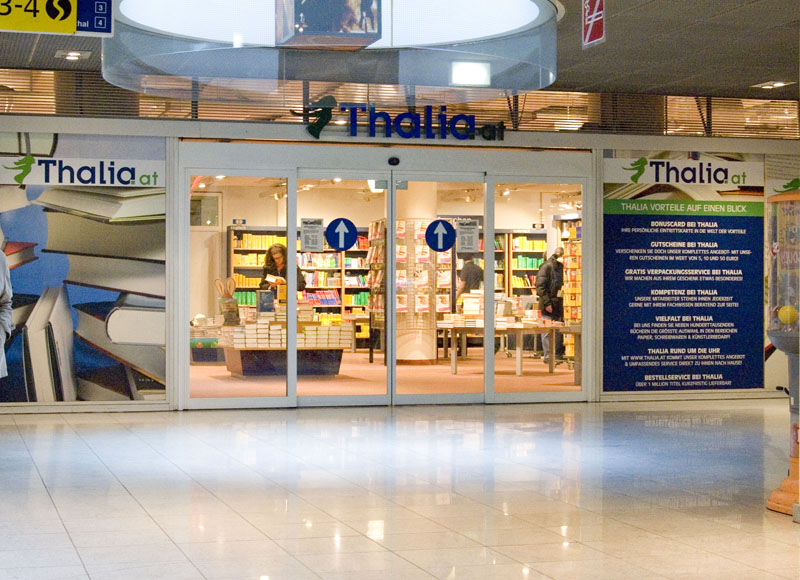 W3 in Wien